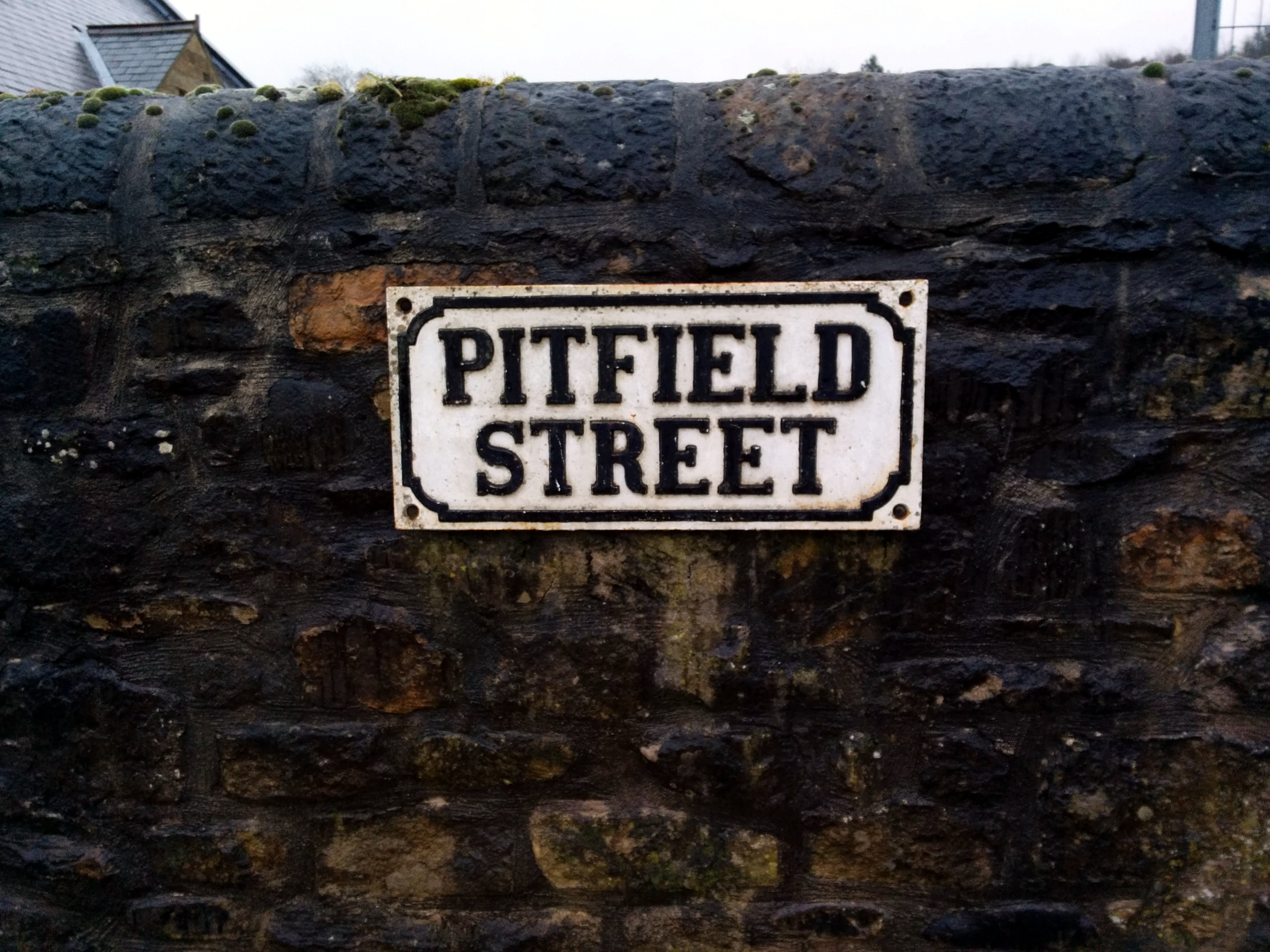 Pitfield Street sign, Coal Village, Beamish, Durham, UK